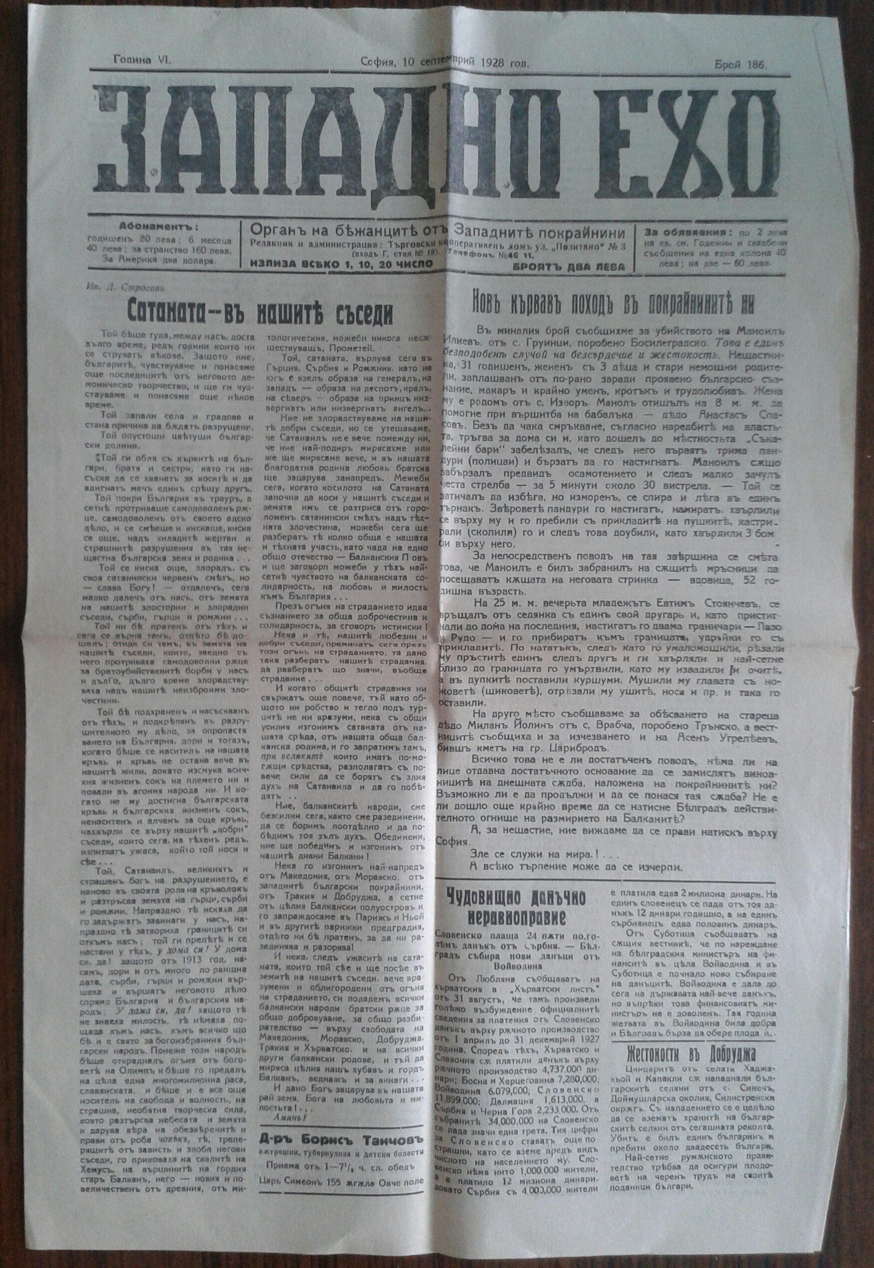 "Zapadno eho" newspaper front page, 10 September 1928.